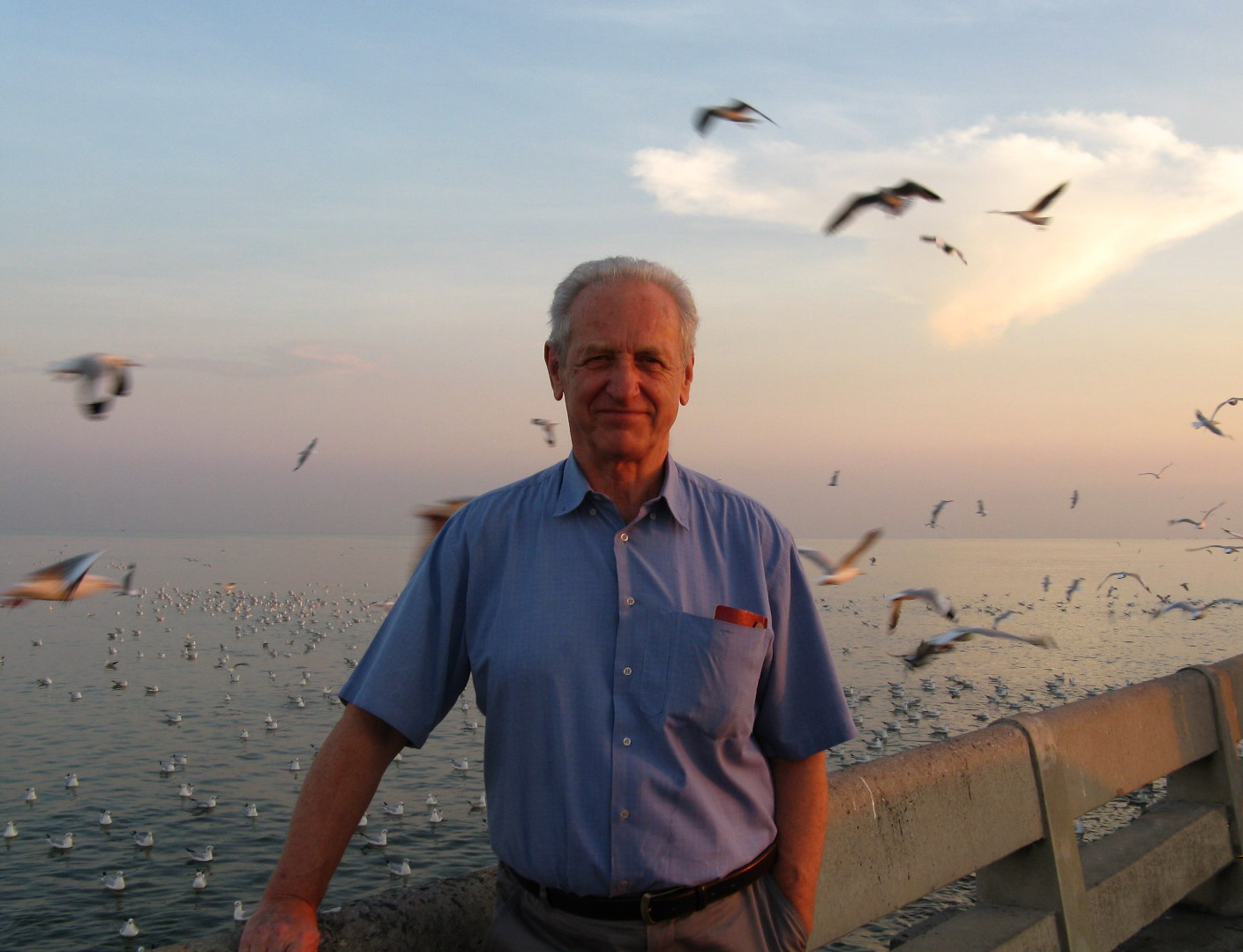 Robert Kowalski at BangPoo, SamutPraKarn, Thailand